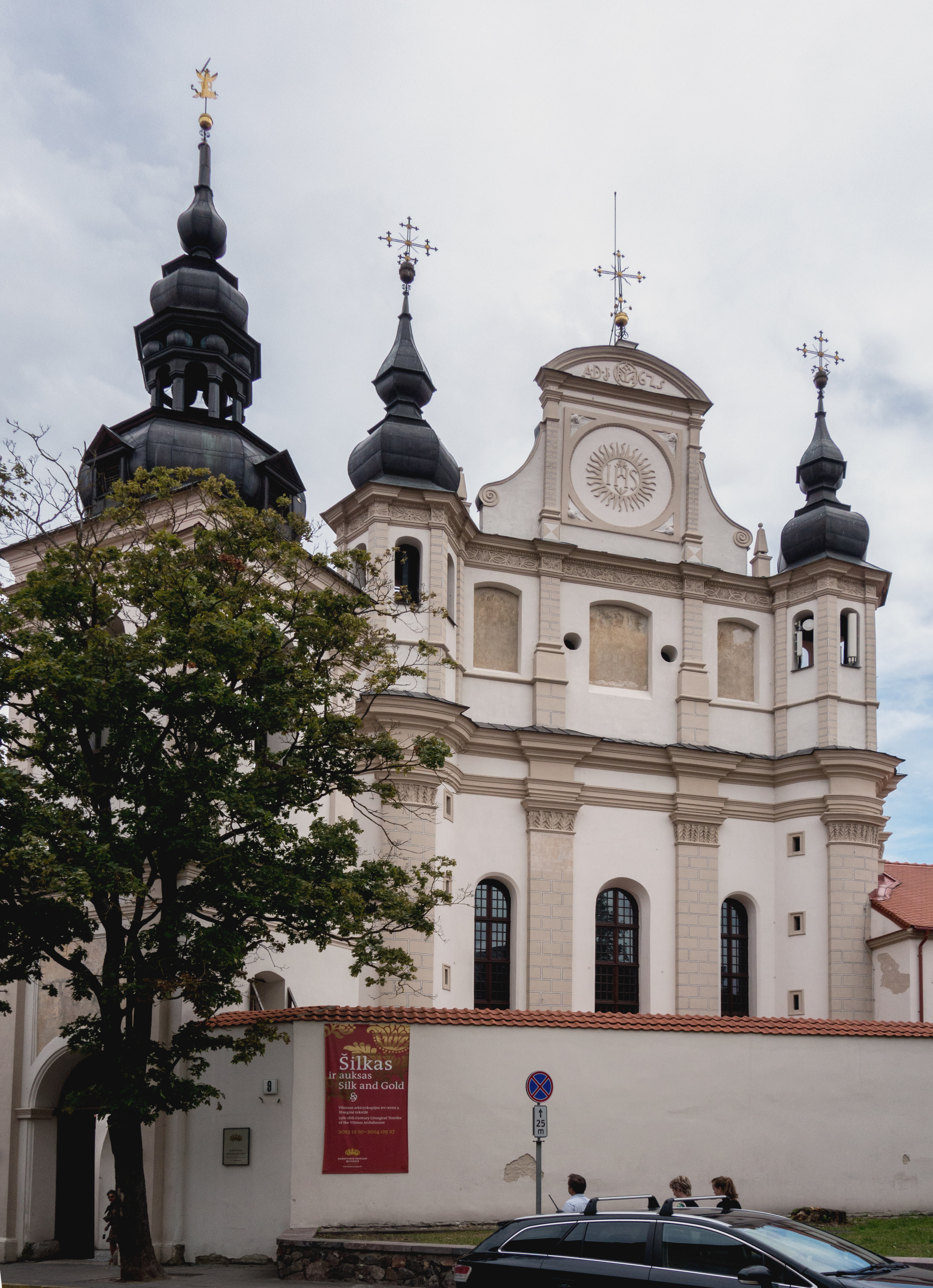 The Church and the Convent of St. Archangel Michael in Vilnius - the Church Heritage Museum